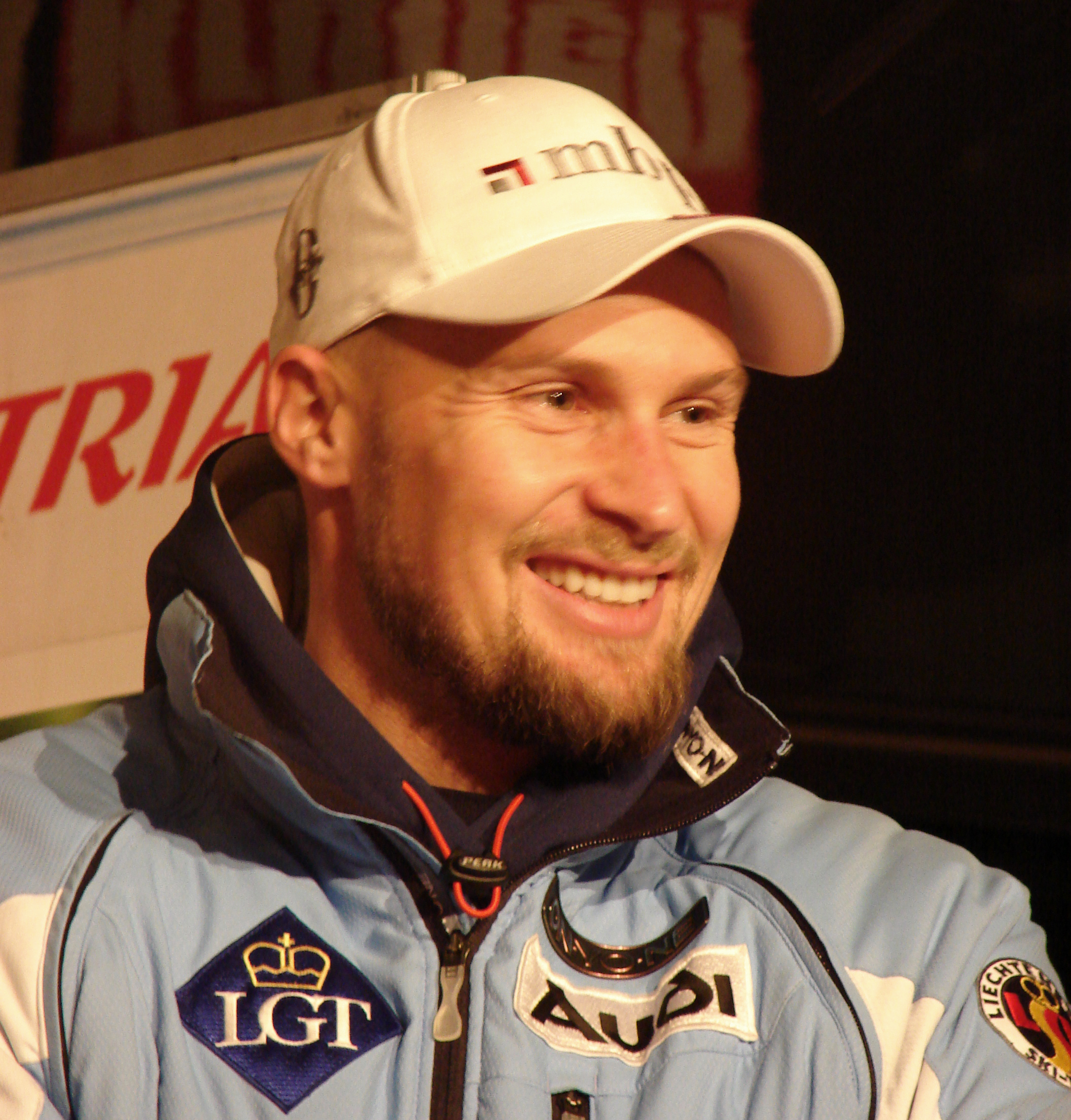 Marco Büchel during the price giving ceremony for the Super G in Hinterstoder, Austria on Dec. 20, 2006.